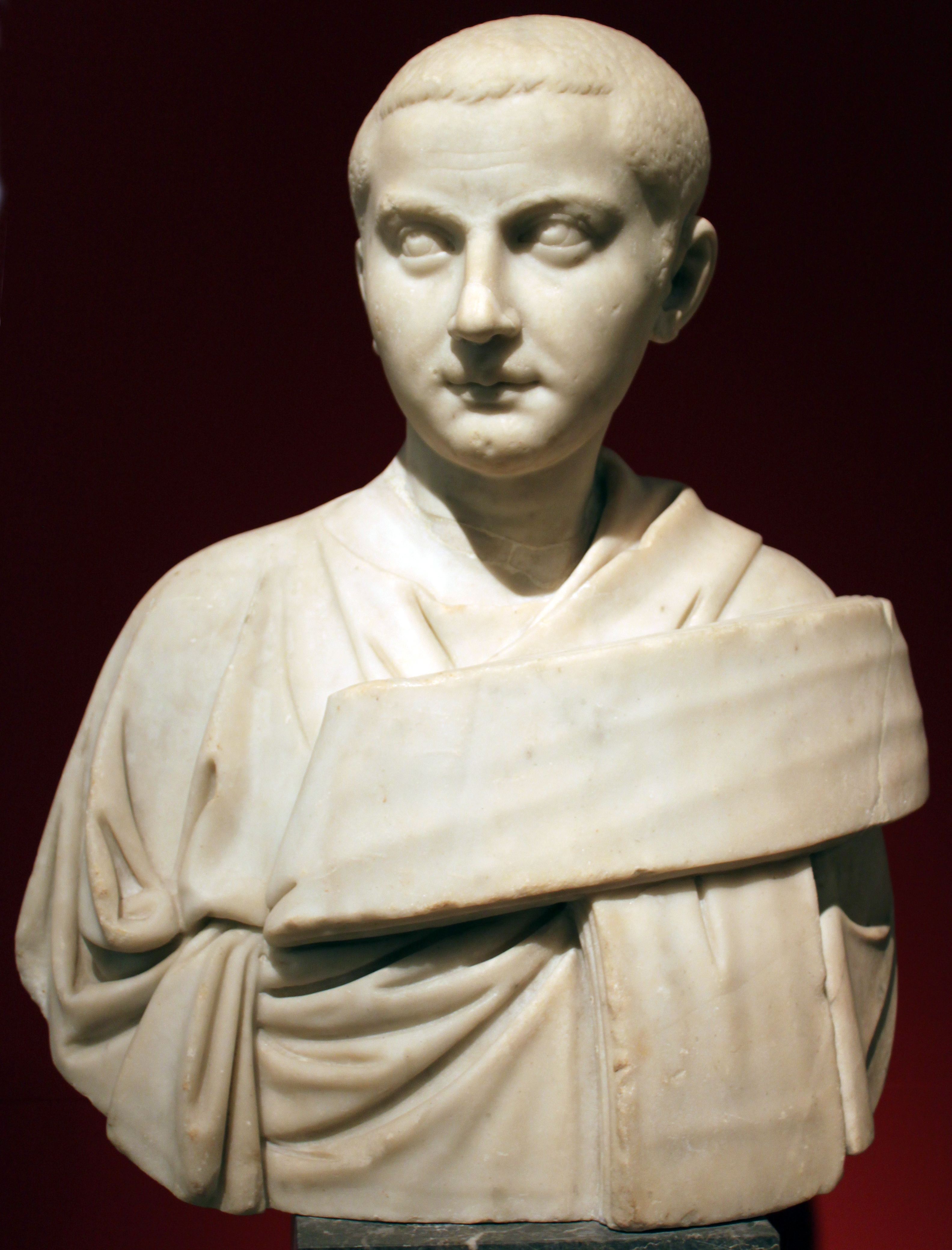 Altes Museum Native nameAltes MuseumLocationBerlinCoordinates52° 31′ 10″ N, 13° 23′ 54″ E Established1828Website control VIAF: 202689698 LCCN: n83197241 GND: 4506837-9 WorldCat Bust of Emperor Gordianus III.; Marble; Sk 385